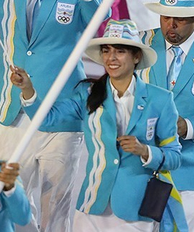 Aruba athletes at the 2016 Summer Olympics